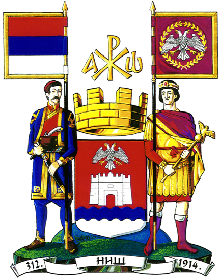 Greater coat of arms of Niš